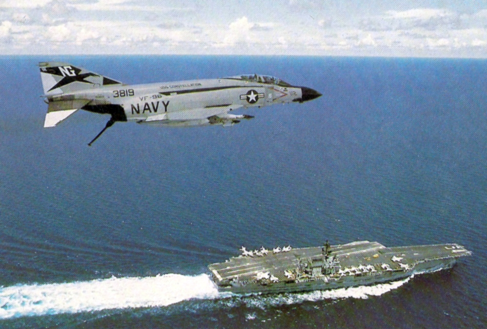 A U.S. Navy McDonnell F-4J-30-MC Phantom II (BuNo 153819) from fighter squadron VF-96 Fighting Falcons shortly before landing on its parent carrier USS Constellation (CVA-64) in 1973. VF-96 was assigned to Attack Carrier Air Wing 9 (CVW-9) for a deployment to Vietnam from 5 January to 11 October 1973.